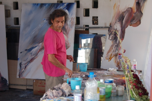 Artist Shahabuddin Ahmed at work